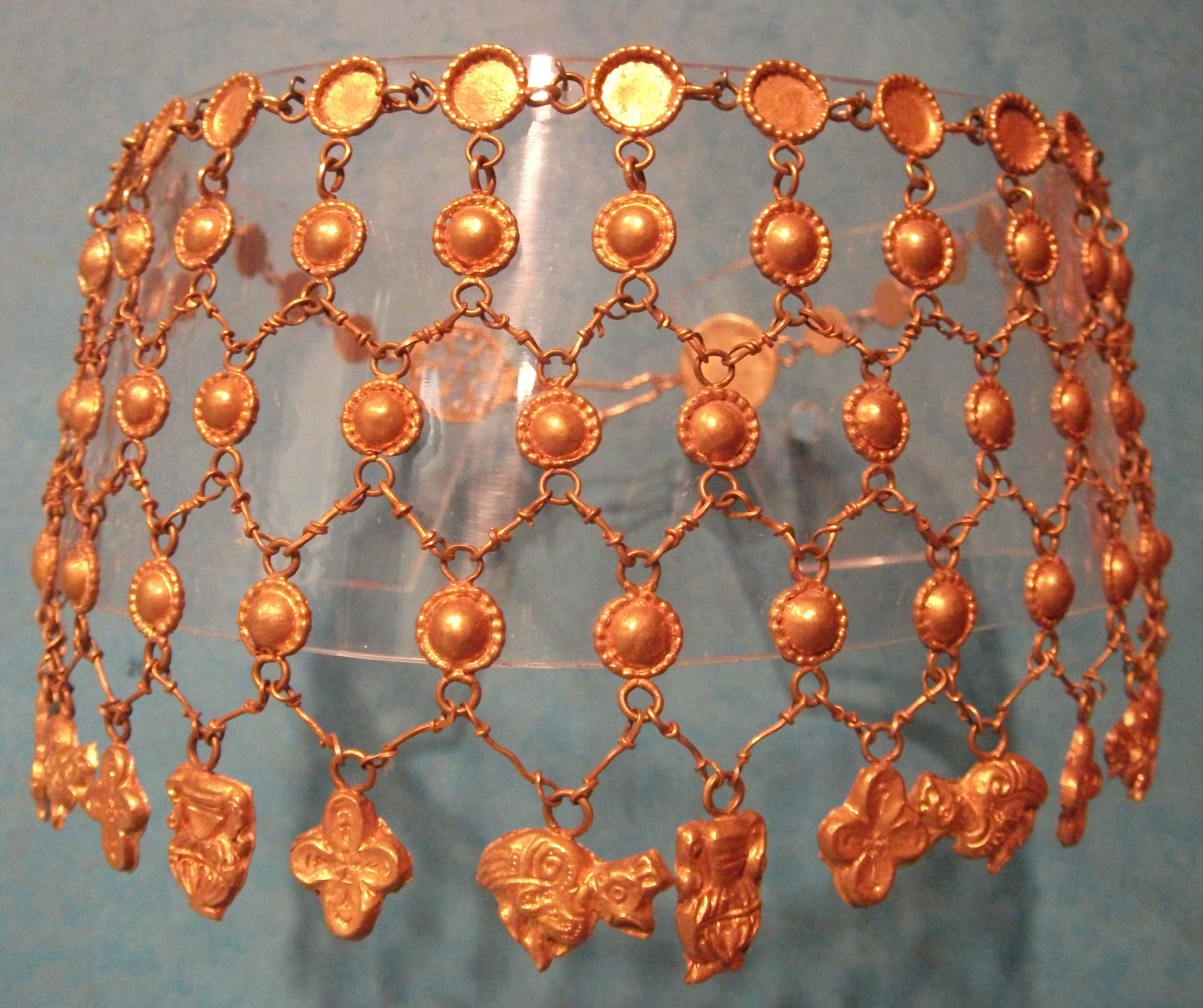 Byzantine collections of Dumbarton Oaks. Most items have a page on their website